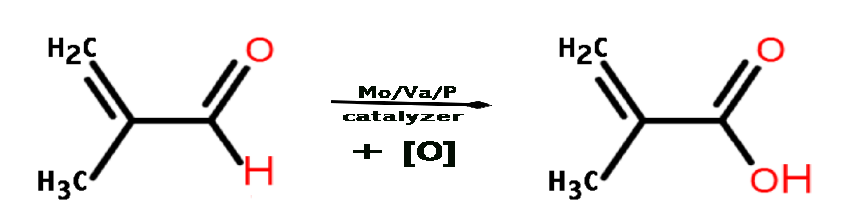 Methacrylic acid synthesis from methacrolein oxidation